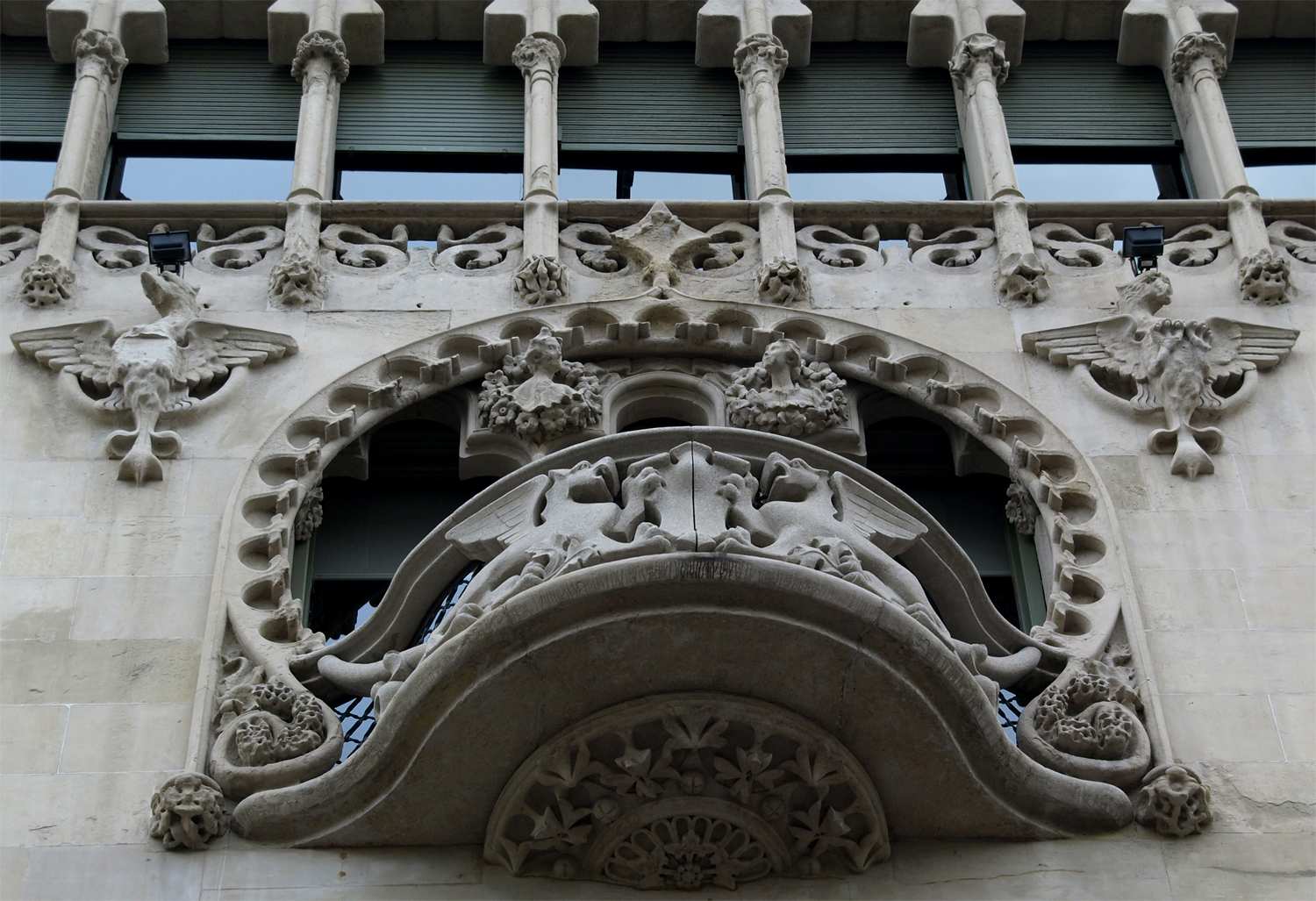 Casa Lleó Morera - Catalan Modernisme (1864, Sociedad Fomento del Ensanche - 1905, Lluís Domènech i Montaner)